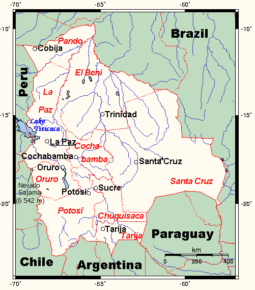 Map of Bolivia